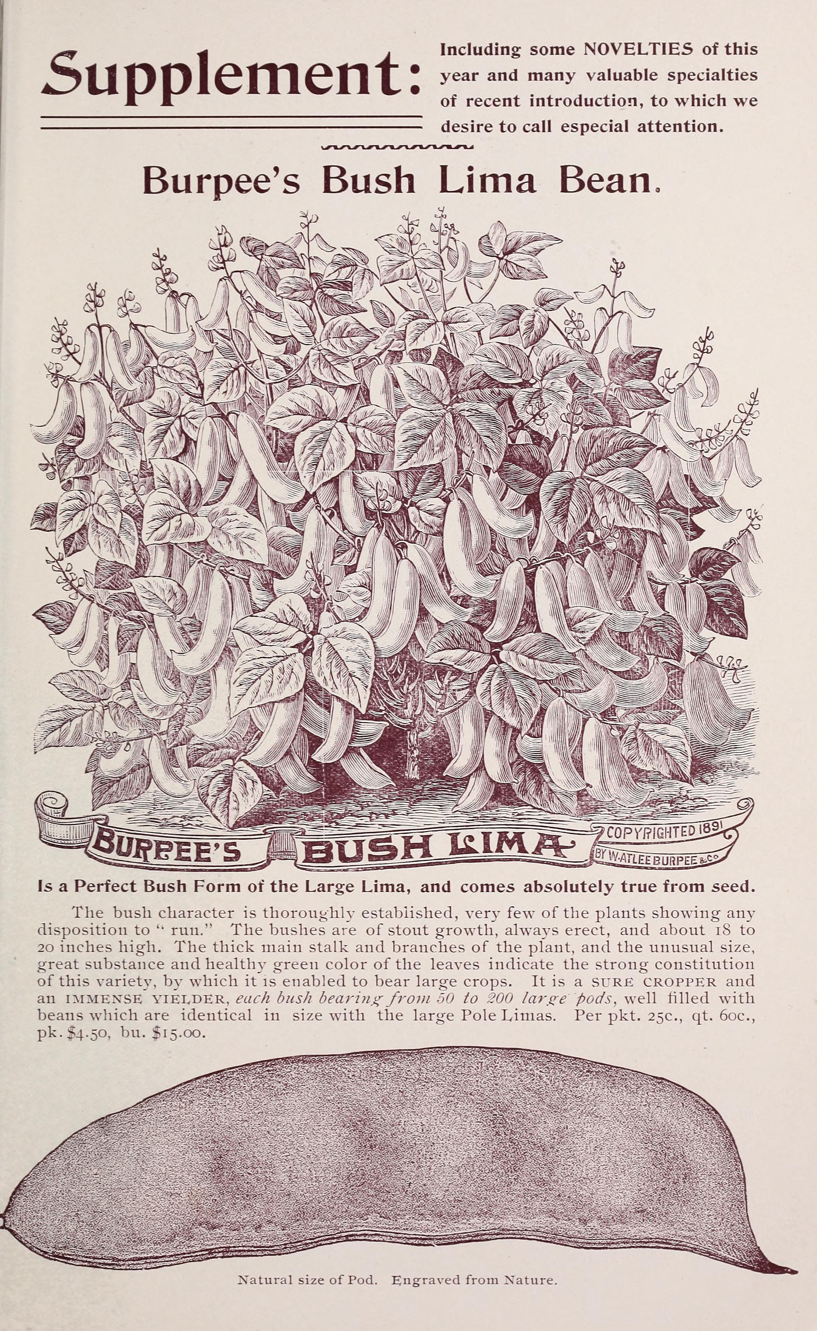 Title: Annual illustrated catalogue of seeds Year: 1894 (1890s) Authors: A. Tilton (Firm); Tilton, A; Henry G. Gilbert Nursery and Seed Trade Catalog Collection Subjects: Nurseries (Horticulture), Minnesota, Catalogs; Vegetables, Seeds, Catalogs; Flowers, Catalogs Publisher: Cleveland, Ohio : A. Tilton Text Appearing Before Image: Is a Perfect Bush Form of the Large Lima, and comes absolutely true from seed. The bush character is thoroughly established, ver}- few of the plants showing au}- disposition to run." The bushes are of stout growth, always erect, and about i8 to 20 inches high. The thick main stalk and branches of the plant, and the unusual size, great substance and healthy green color of the leaves indicate the strong constitution of this variety, by which it is enabled to bear large crops. It is a sure cropper and an IMMENSE YiELDER. eucfi bush bearin,^ from 50 to 200 lavfie pods, well tilled with beans which are identical in size with the large Pole Linias. Per pkt. 25c., qt. 60c., pk.$4.5o, bu. $15.00. Text Appearing After Image: Natural size of Pod. Engraved from Nature.